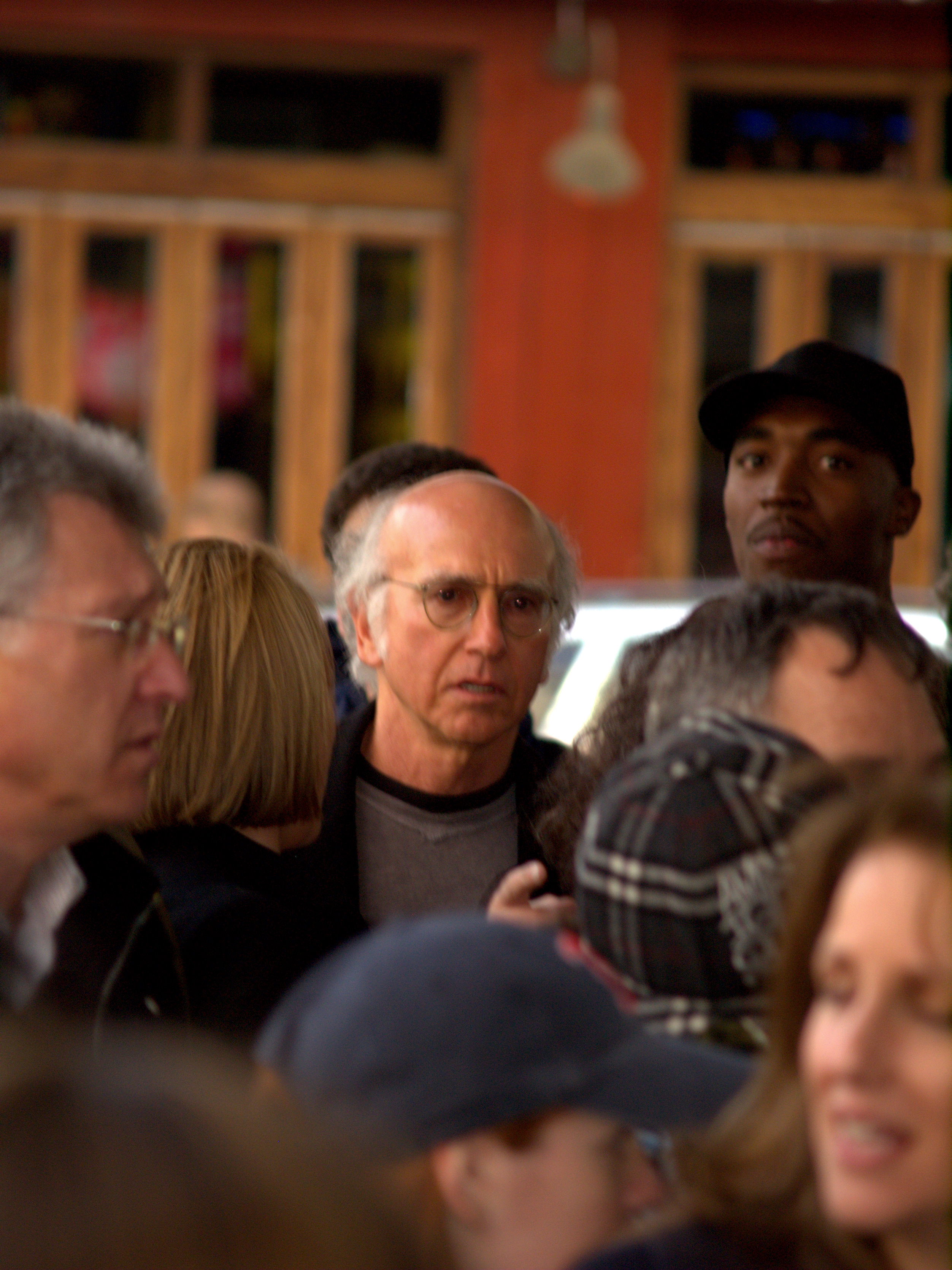 Larry David at the 2009 Tribeca Film Festival premier of the Farrelly Brothers-produced film Lost Son of Havana about Luis Tiant.